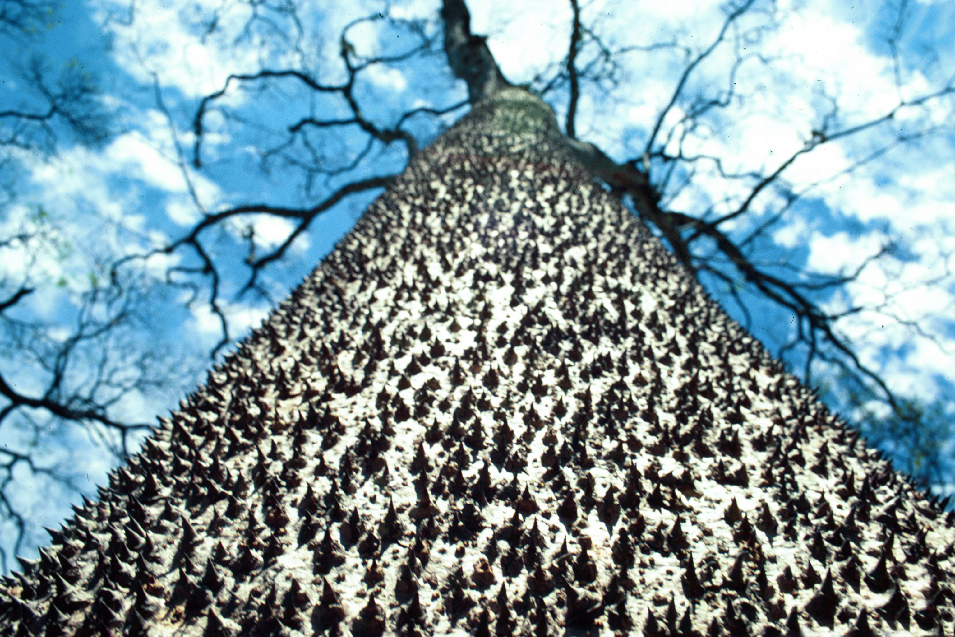 Deciduous forest, northeastern Costa Rica, Hura crepitans L. trunk